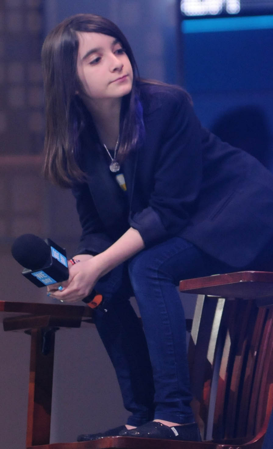 Hannah Alper and Lily Collins shared the stage at We Day Seattle 2015 during the social empowerment segment and delivered speeches about bullying.